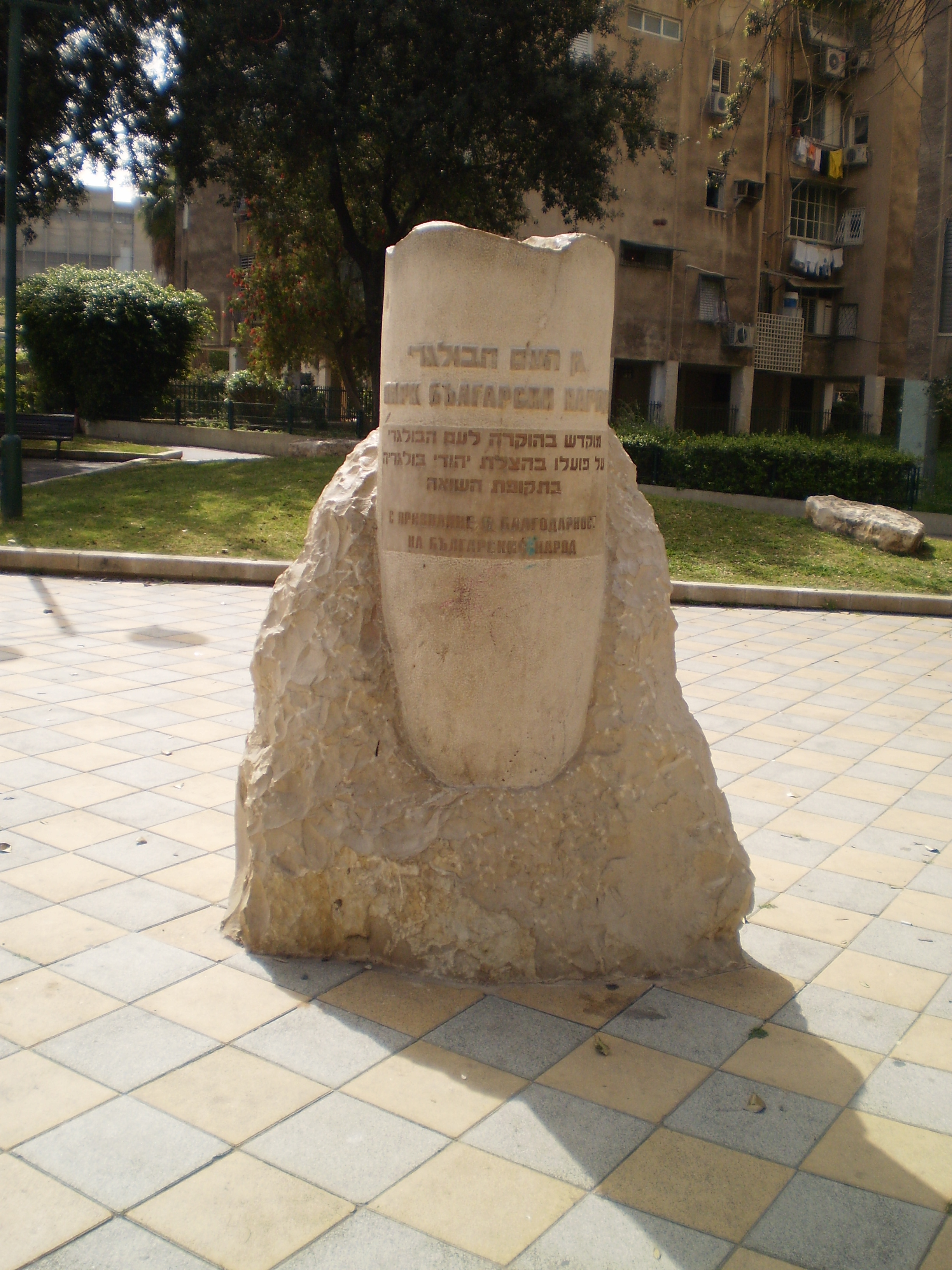 Gan Haam Habulgari - Garden of the Bulgarian People, Jaffa, in honor of the Bulgarian people for saving the Bulgarian Jews during the holocaust